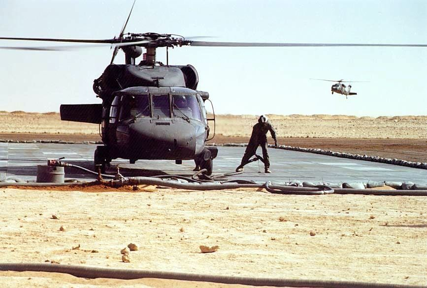 Desert Storm - UH-60A Blackhawk being refueled, 101st Airborne Division Rapid Refuel Point (RRP) capable of servicing twenty helicopters simultaneously; fuel handling personnel from 102d Quartermaster Detachment, Logistical Base CHARLIE, Northern Province, Saudi Arabia